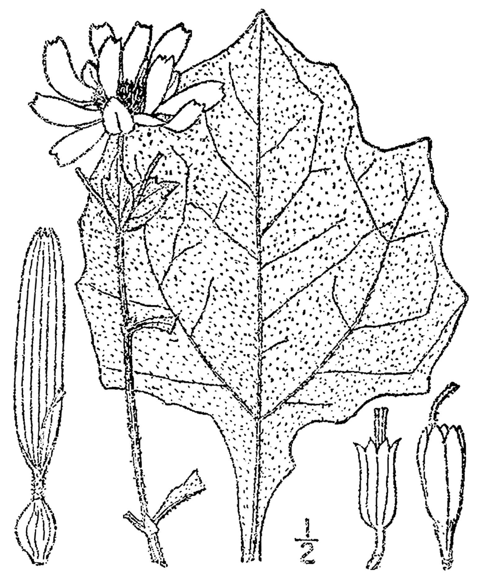 Smallanthus uvedalia (L.) Mack. ex Small - hairy leafcup